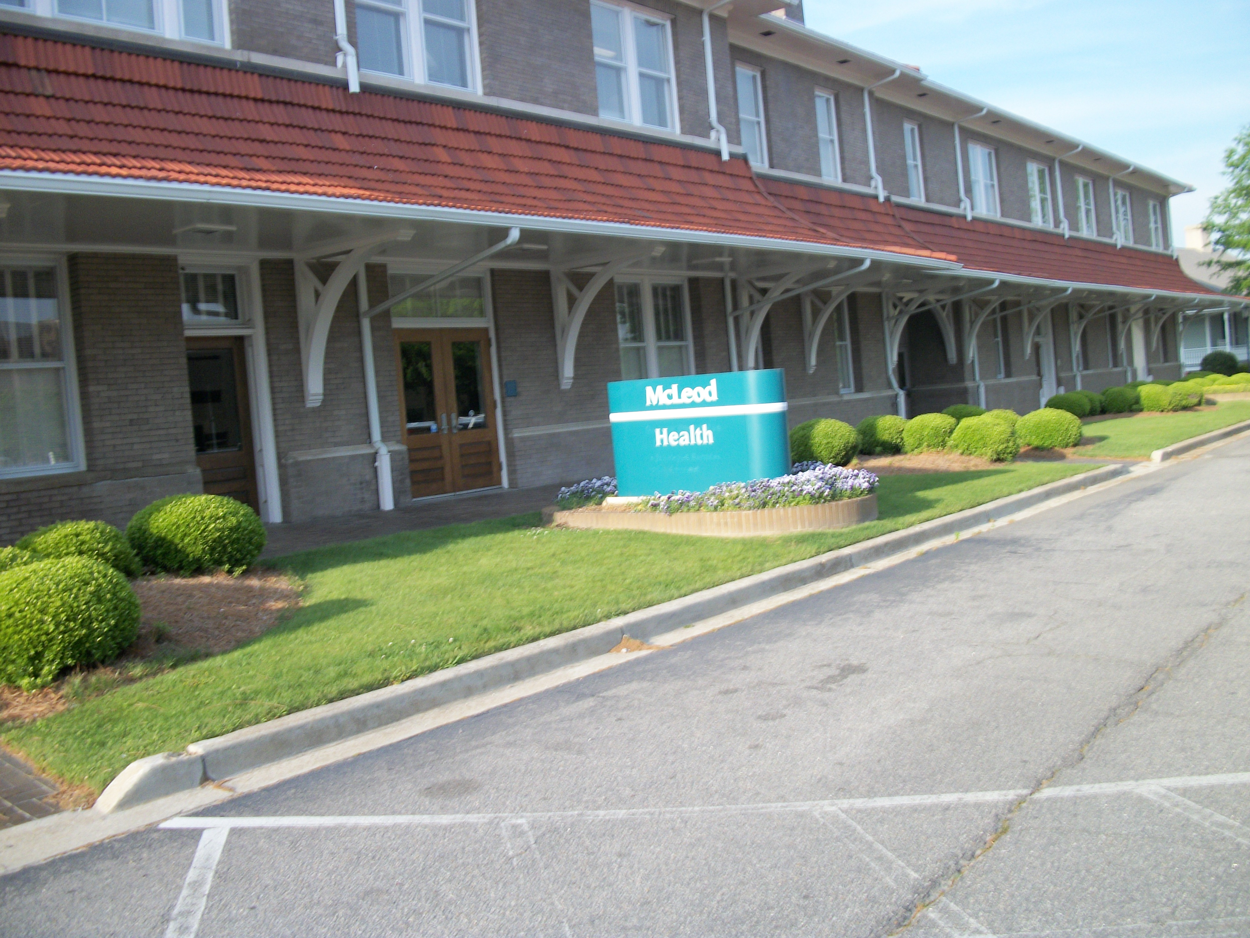 The former Florence Railroad Station as seen from the parking lot of the McLeod Regional Medical Center in Florence, South Carolina. Until 1996 this was also an Amtrak Station. Now it's just another facility for the aforementioned medical center.